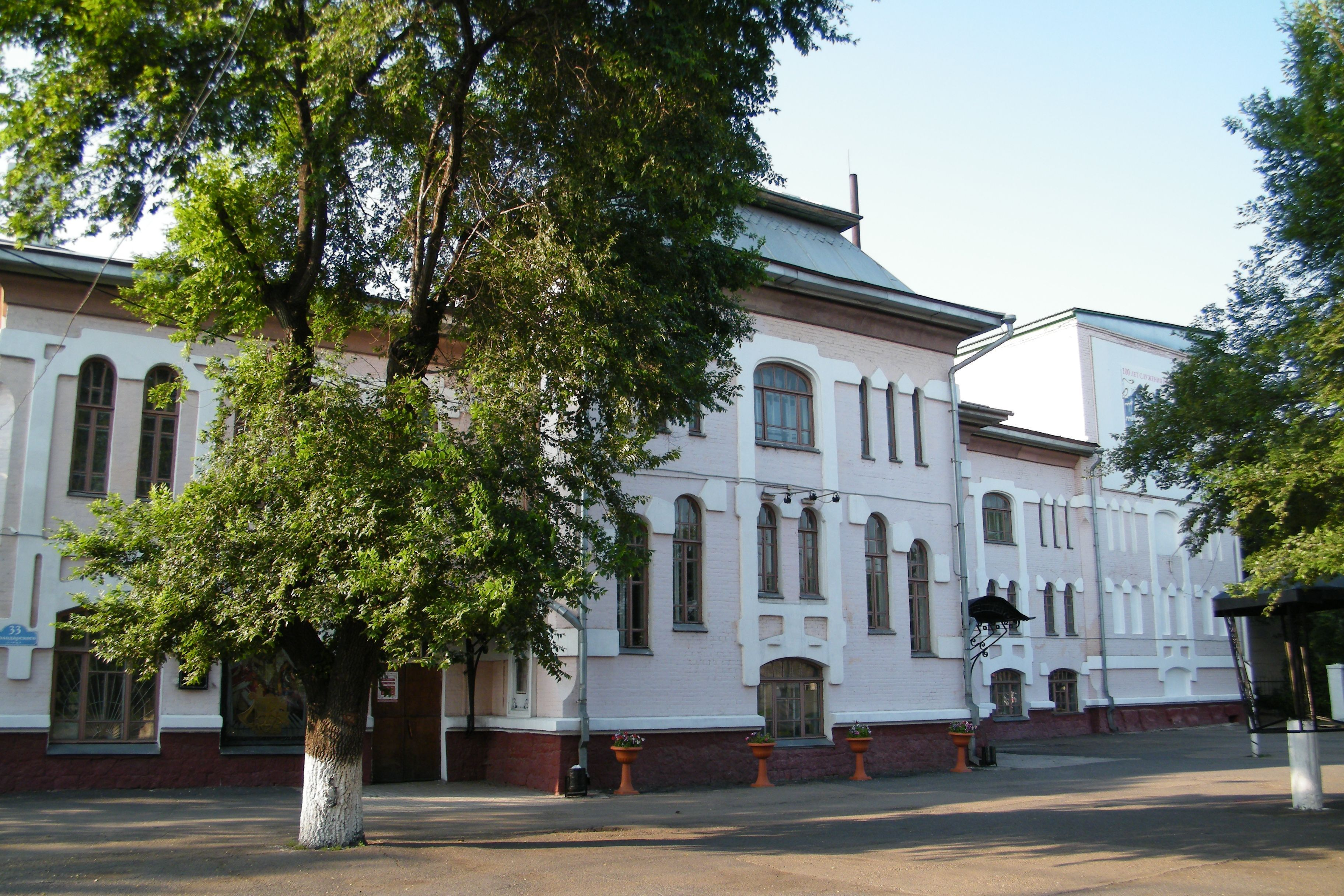 Ussuriysk drama theatre